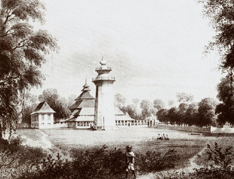 Colonial era sketch of Grand Mosque of Banten